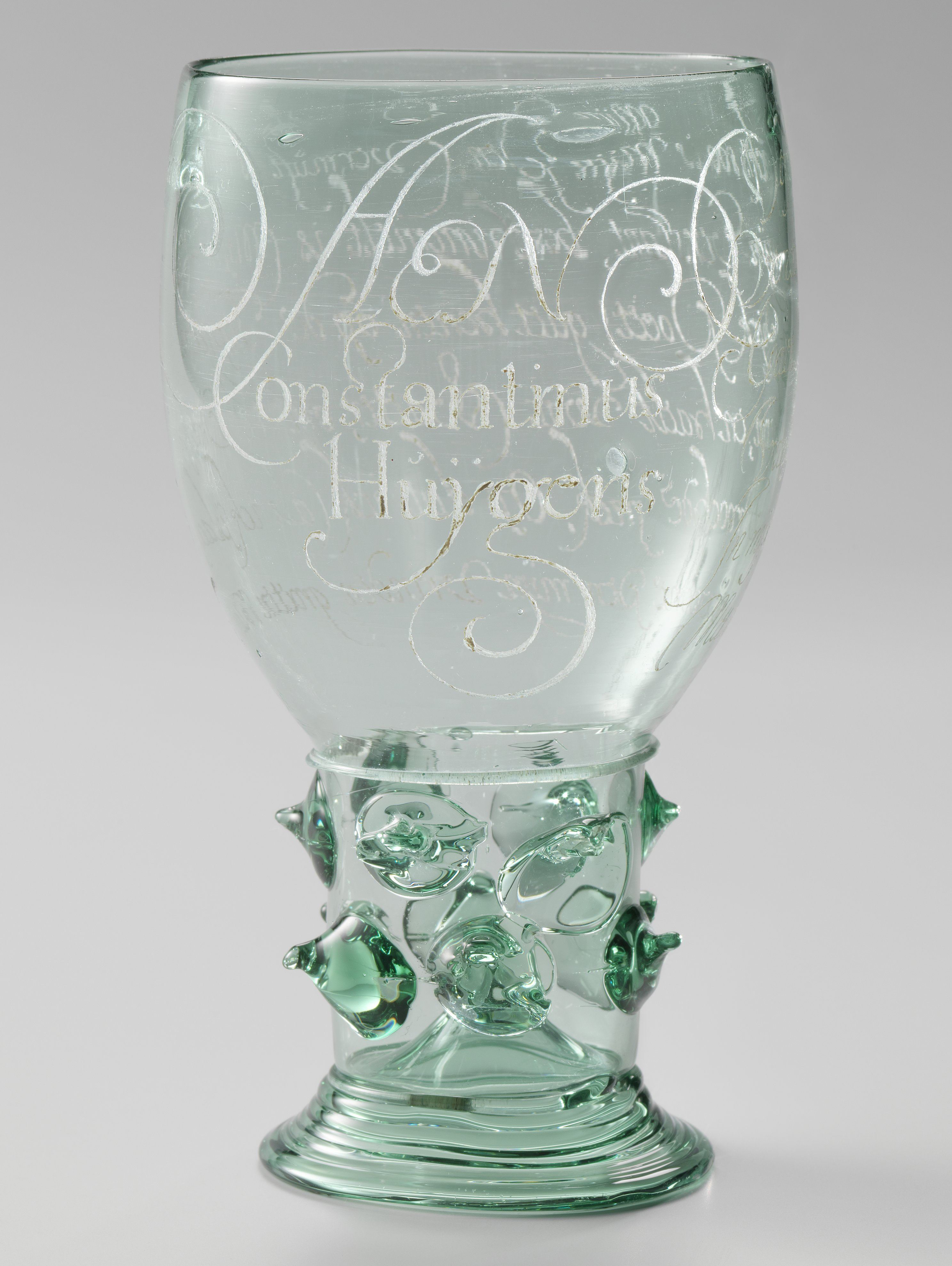 Anna Roemers Visscher engraved one of her own poems on a wine glass as a gift for Constantijn Huygens. The verses contain both a lament and a request: her pen has run dry, and her mind has turned to rust. She asks Huygens to fetch her some water from Helicon – home of the Muses – so that her ink will flow freely and she can write poems once again. (Source: text at internet source link)